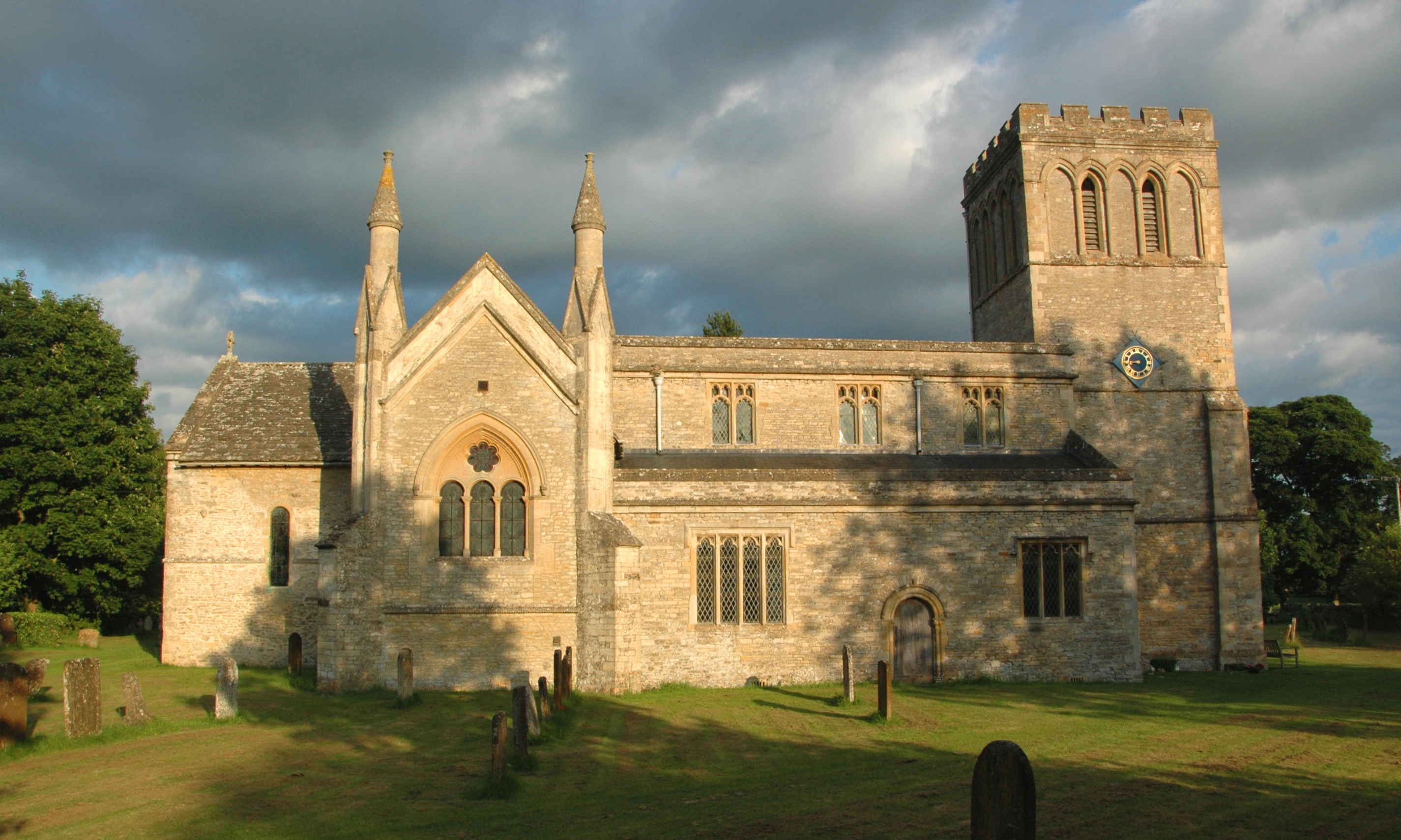 Church of England parish church of All Saints, Middleton Stoney, Oxfordshire: view from the north